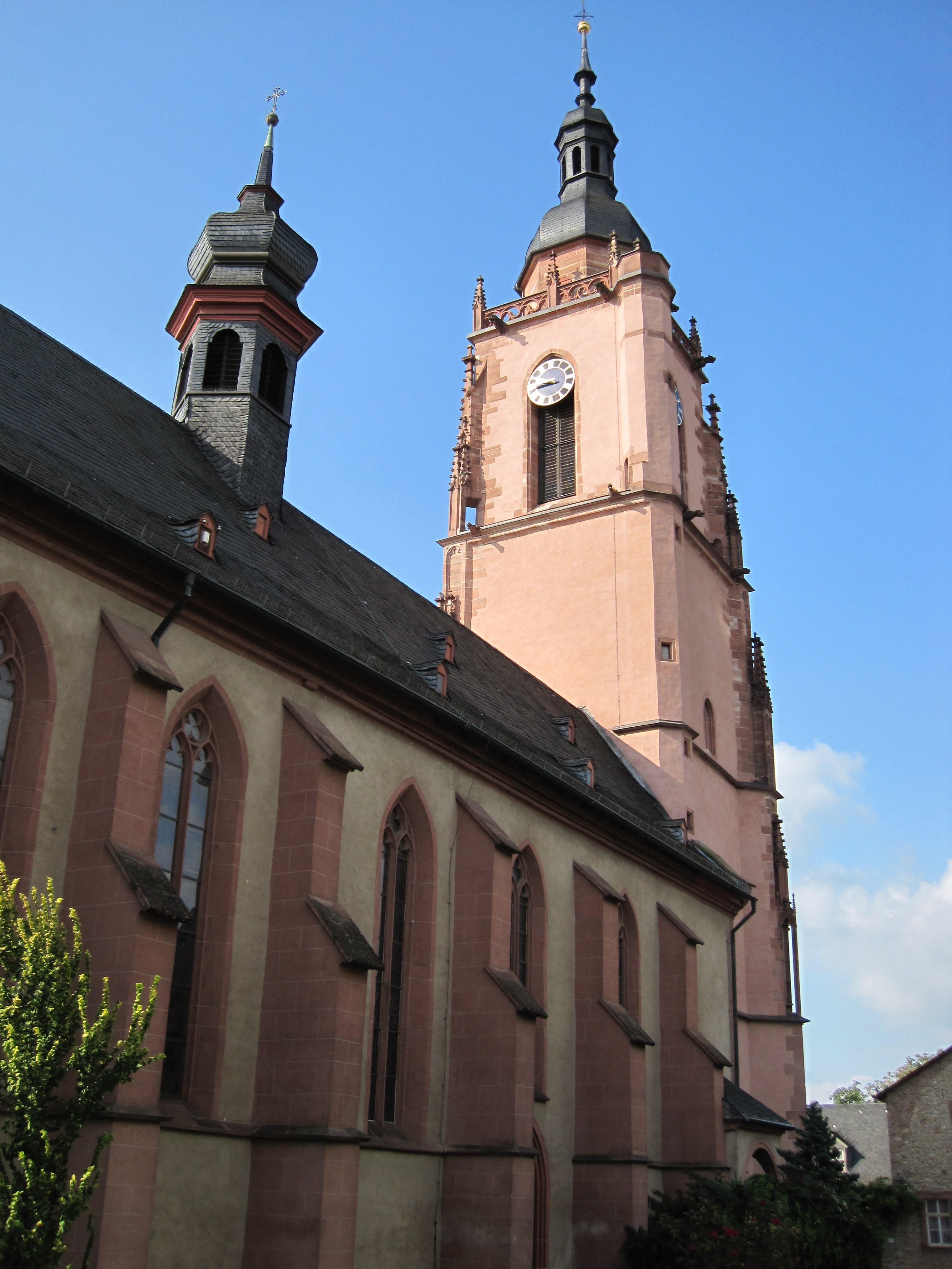 St. Peter’s and Paul’s parish church in Eltville, Germany